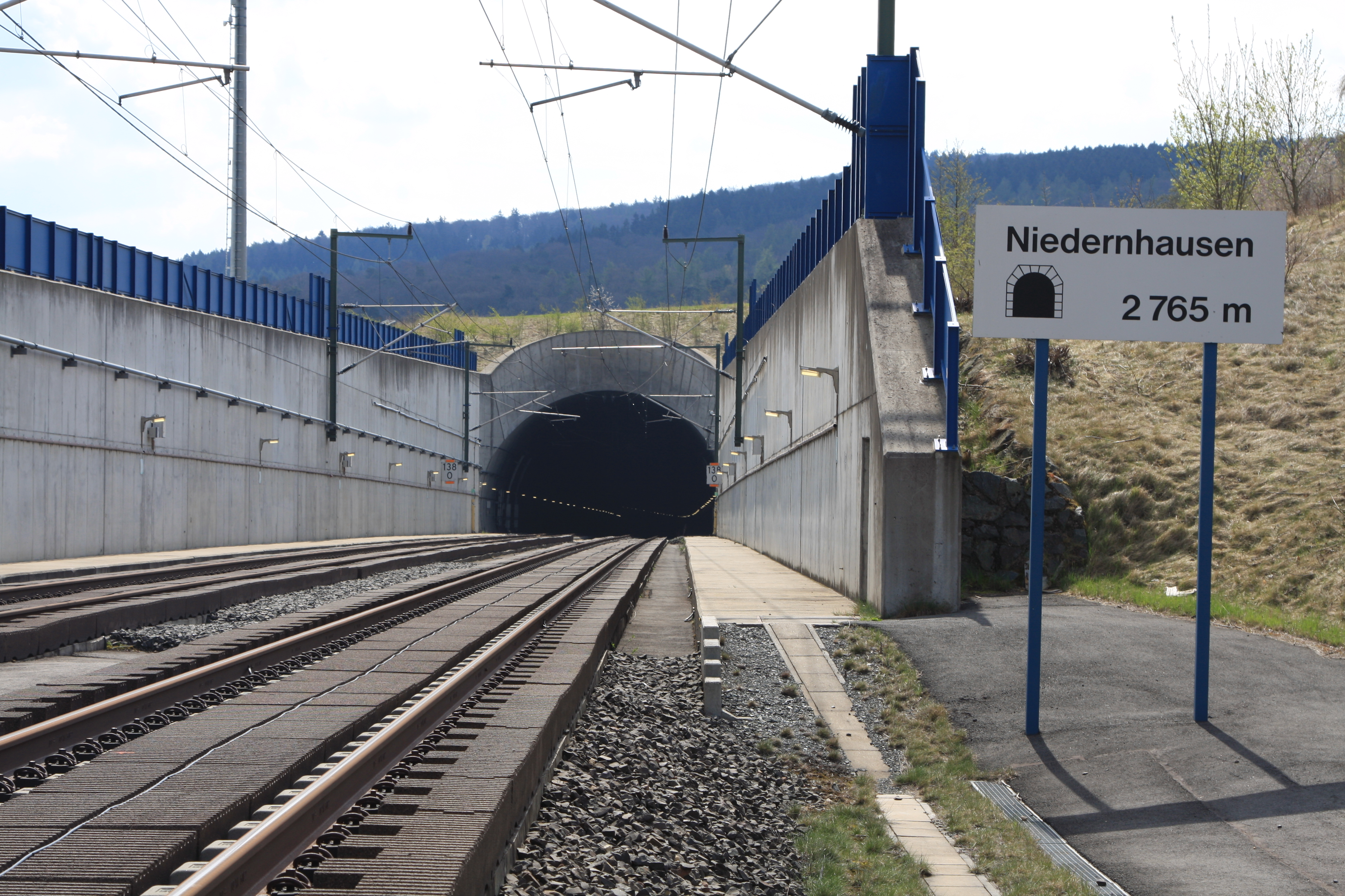 The northern gate of the Niedernhausener Tunnel of the Cologne–Frankfurt high-speed rail line